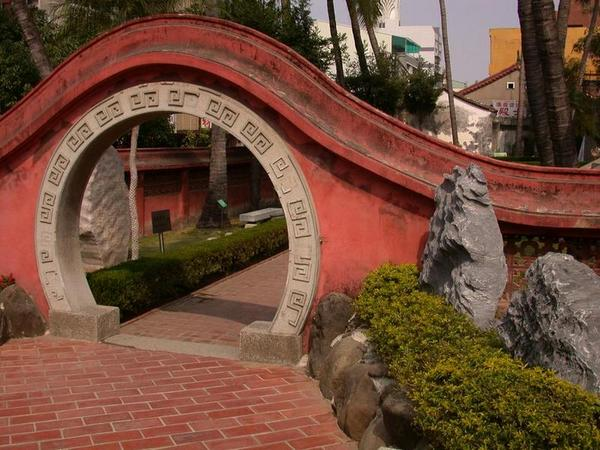 A round gate at a temple in Tainan, Taiwan/ taken by Philo Vivero/ 2 February, 2004 This image was photographed by Philo Vivero on 2 February, 2004 and is placed in GFDL for Wikipedia.